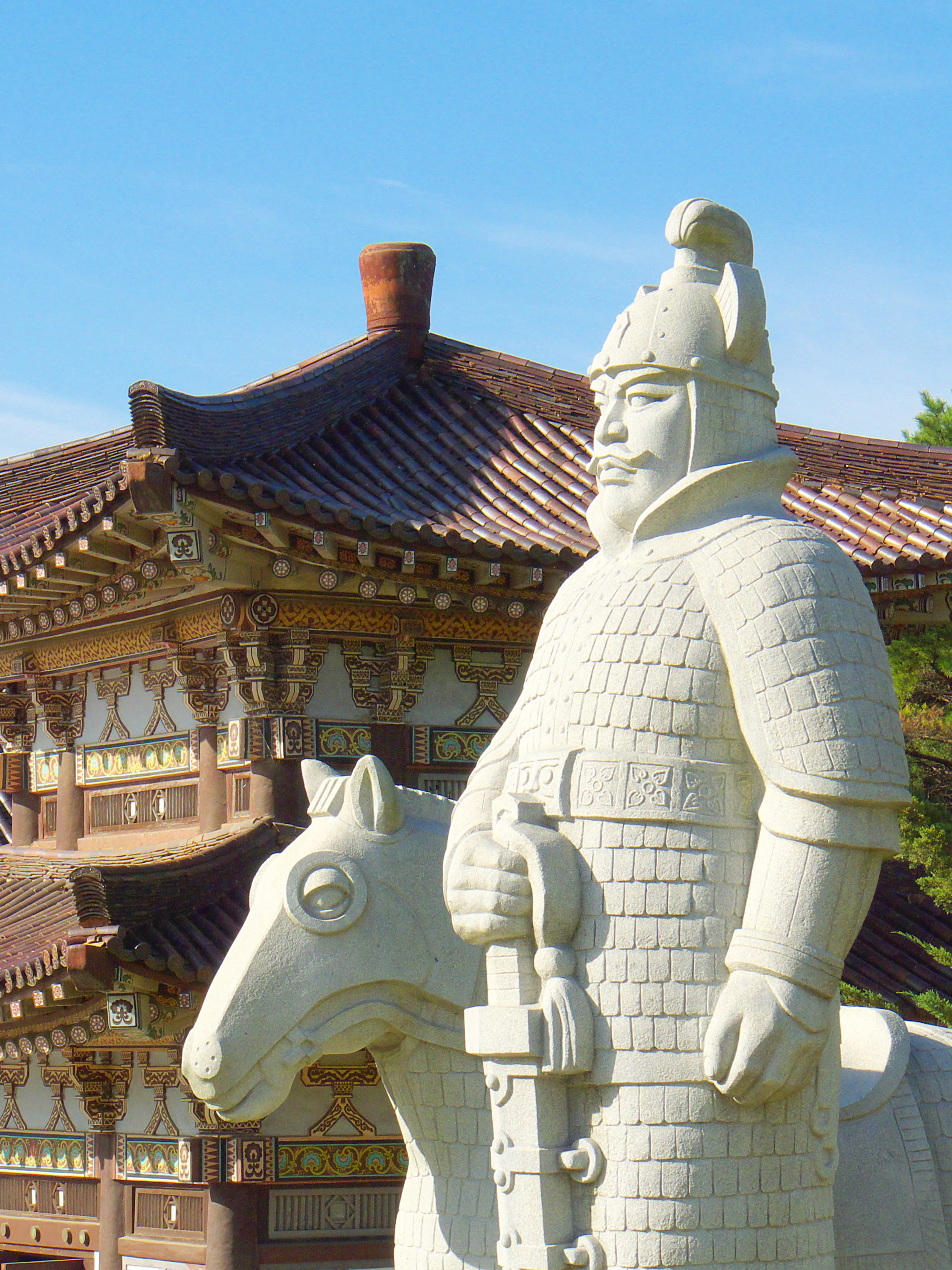 Tomb of King Tongmyong, Pyongyang, North Korea (259-298BC)